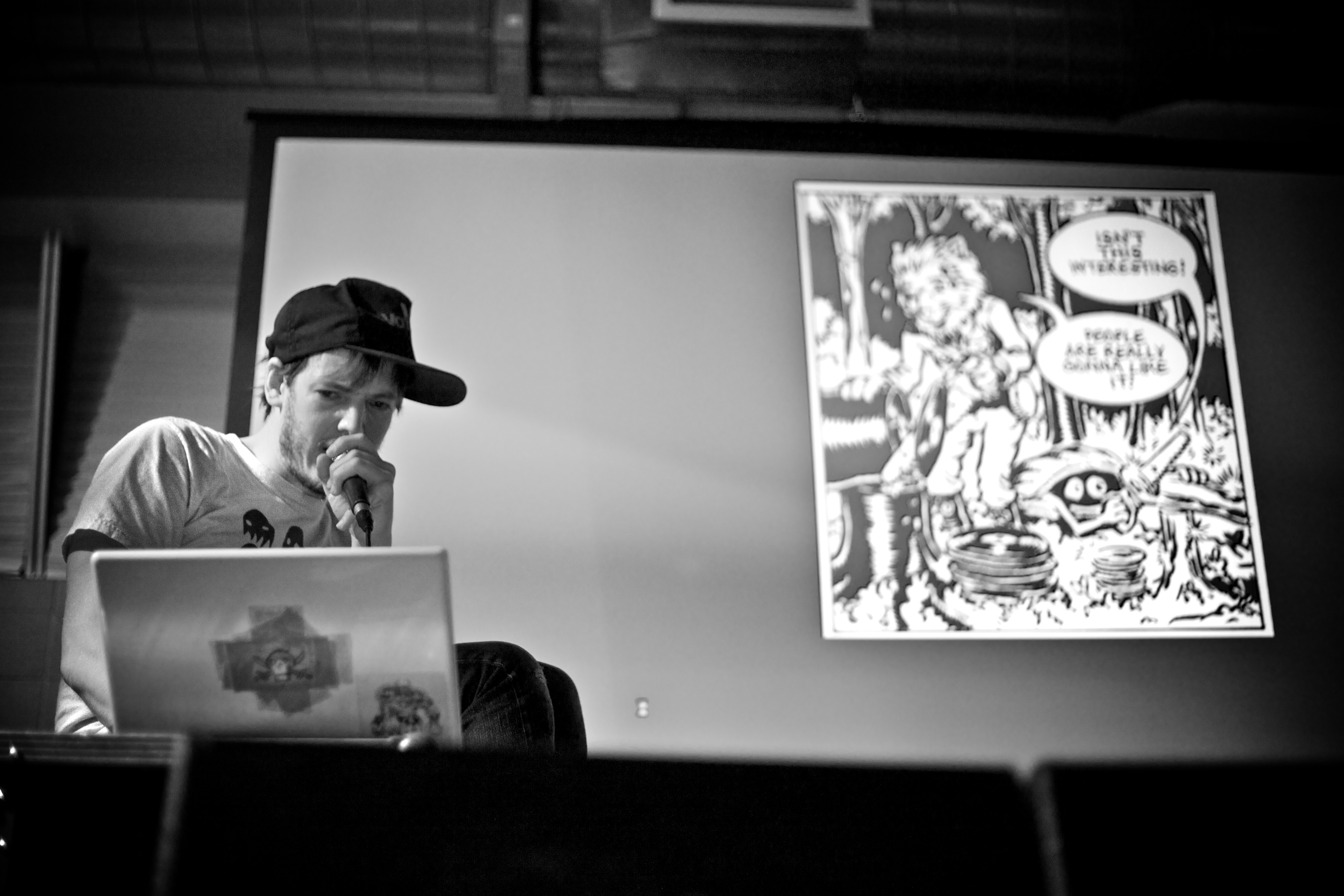 Rough Trade East, 10th October 2011